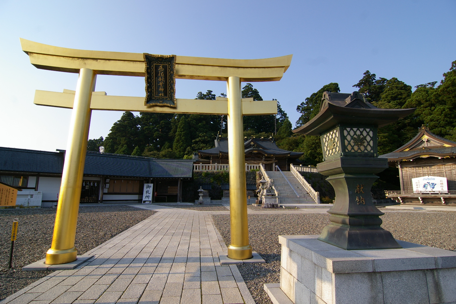 Akiba Jinja